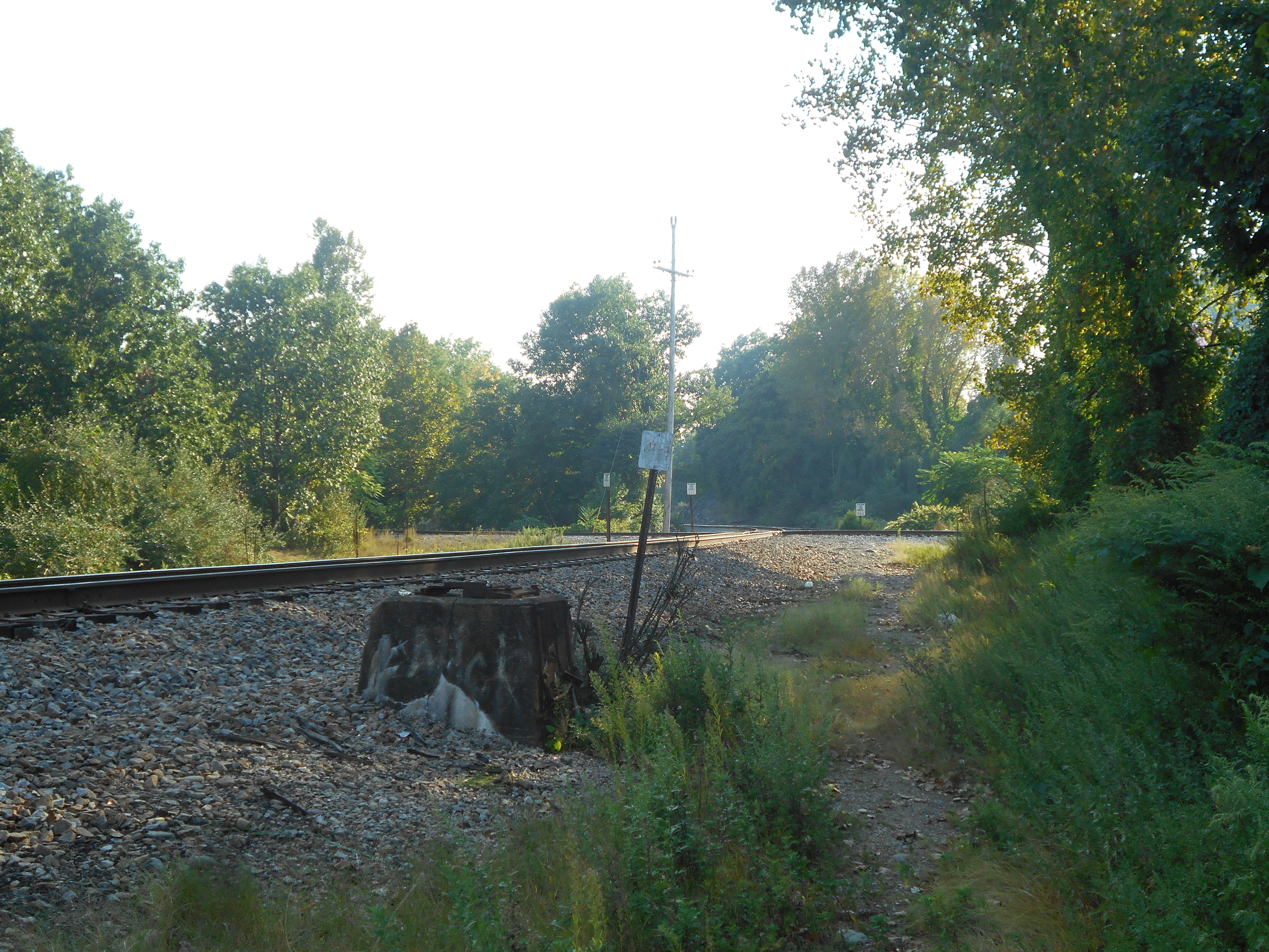 The former Pompton Lakes station in Pompton Lakes, New Jersey in September 2014.